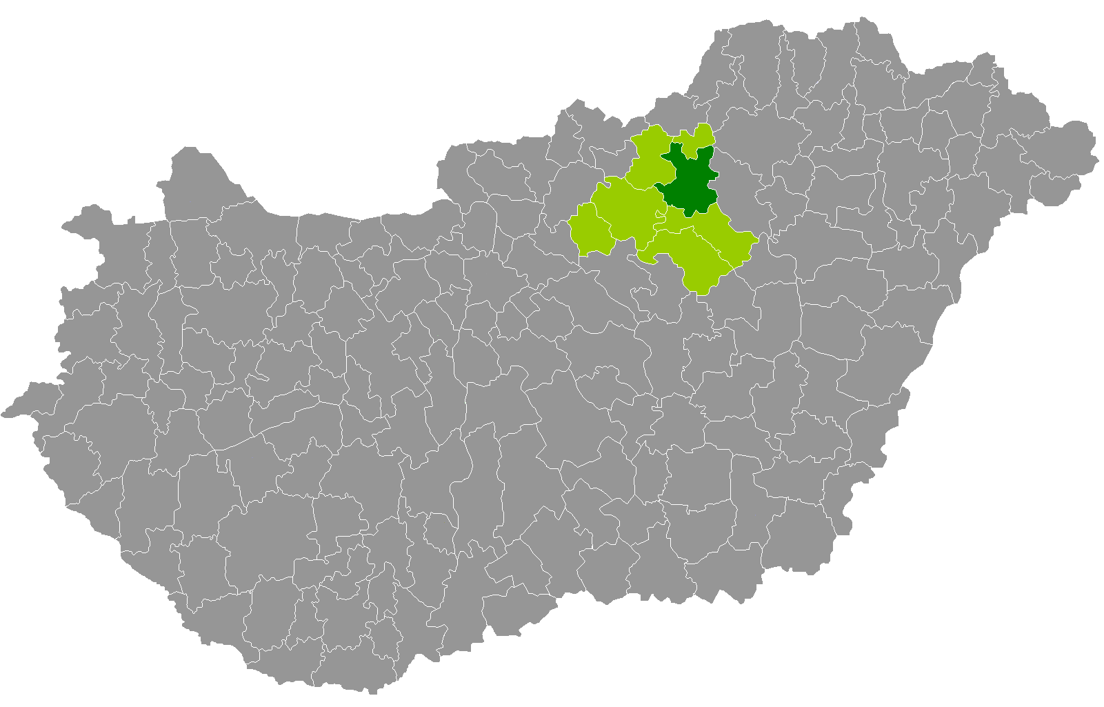 Location of Eger District, Heves, Hungary